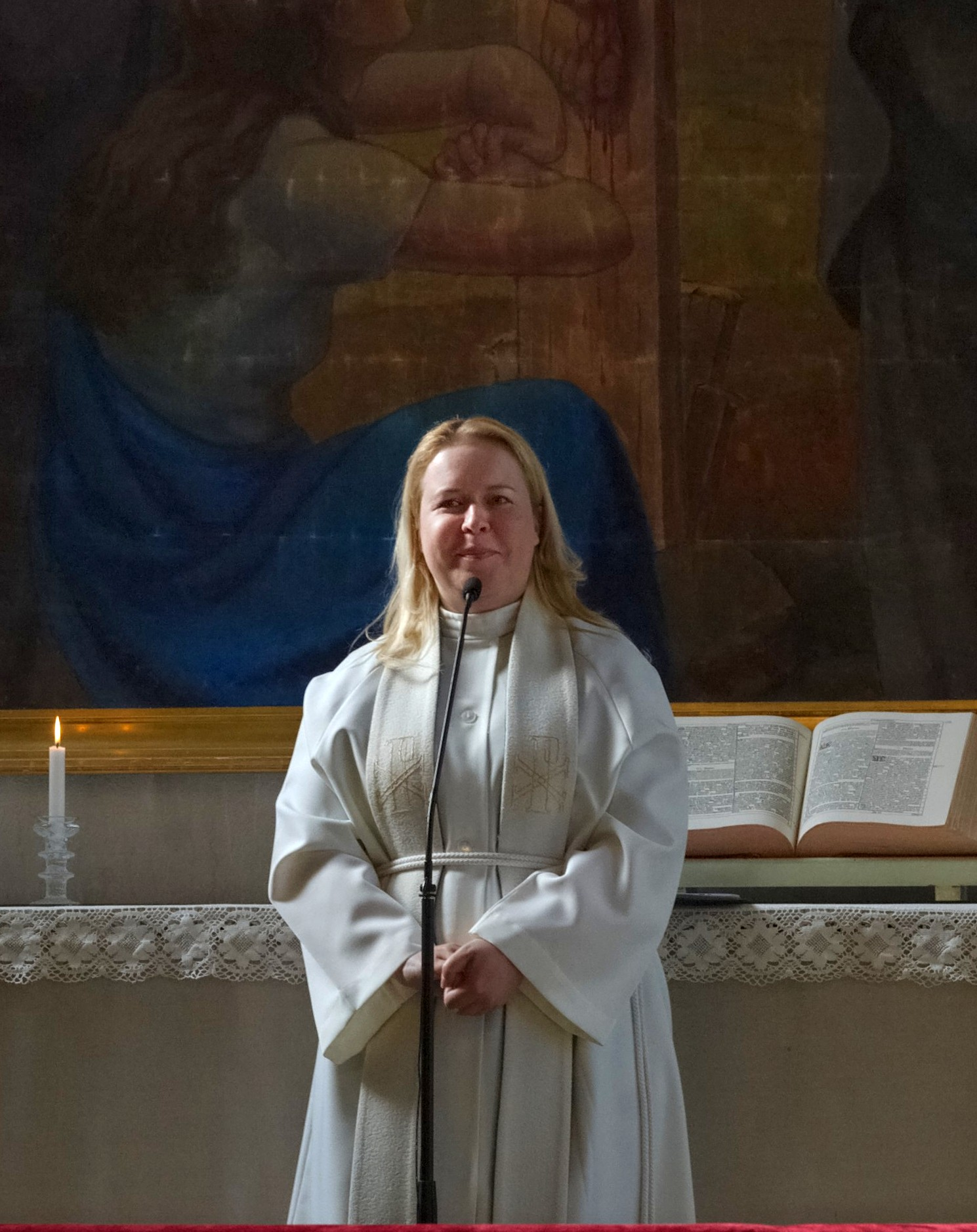 Ylämaa Church (inside). On the background, a painting by Väinö Saikko (1939).